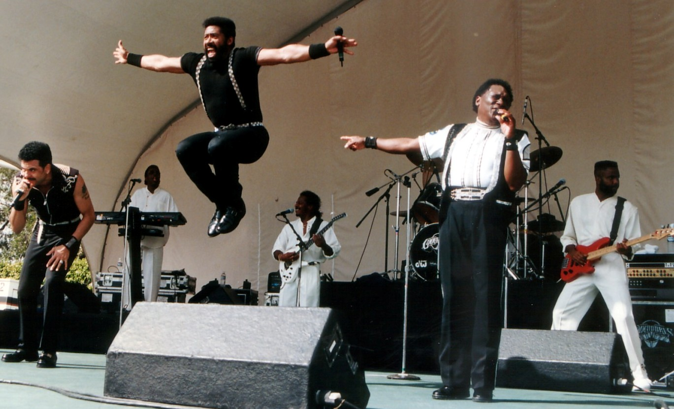 The Commodores performing at Gulfstream Park in Hallandale, FL.